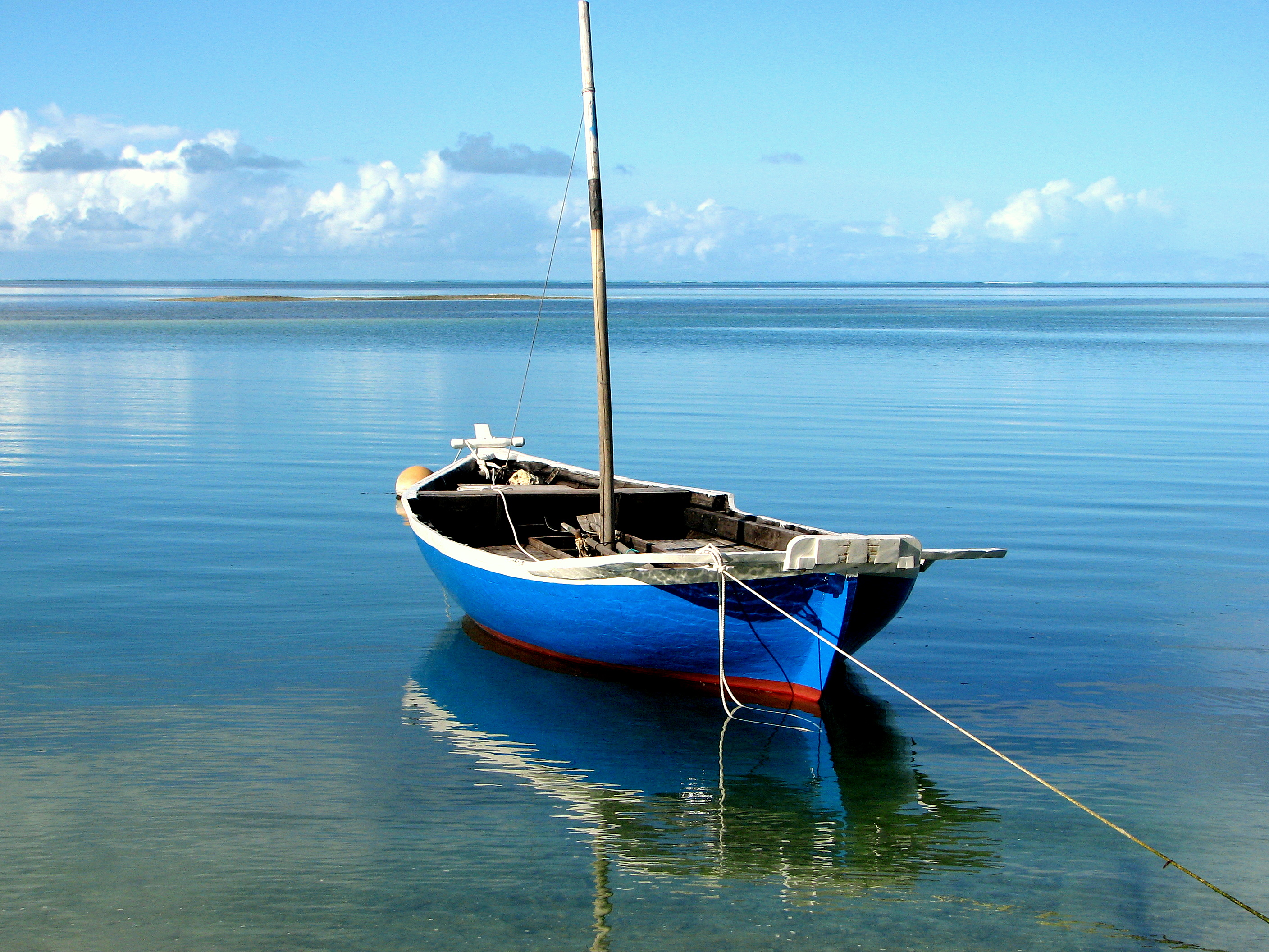 They are still useful to go fishing in the vicinity.